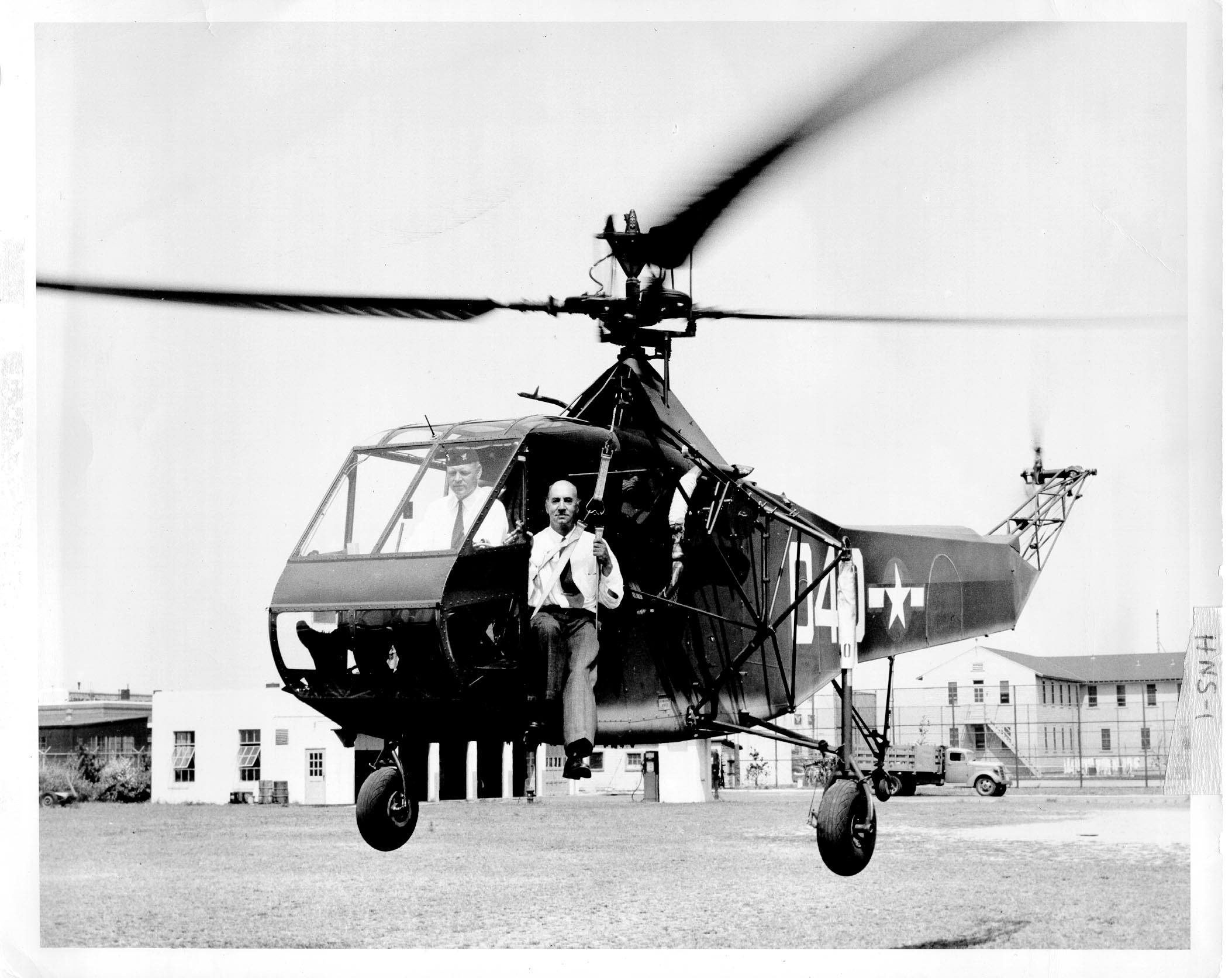 Original Caption: "Comdr. Frank A. Erickson, USCG & Dr. Igor Sikorsky, Sikorsky Helicopter HNS-1 C.G. #39040."